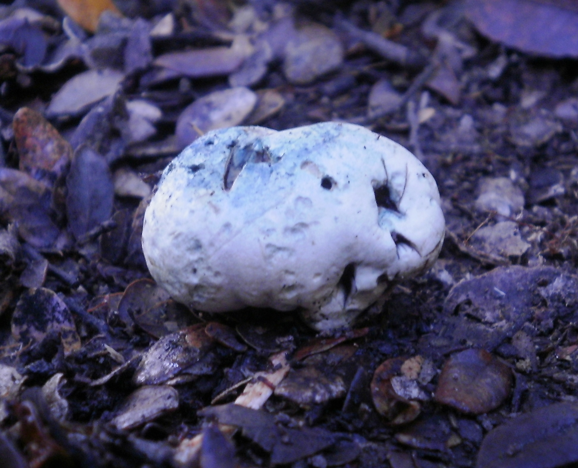 Chamonixia pachydermis, (Gautieria), in Upper Hutt beech forest, New Zealand.